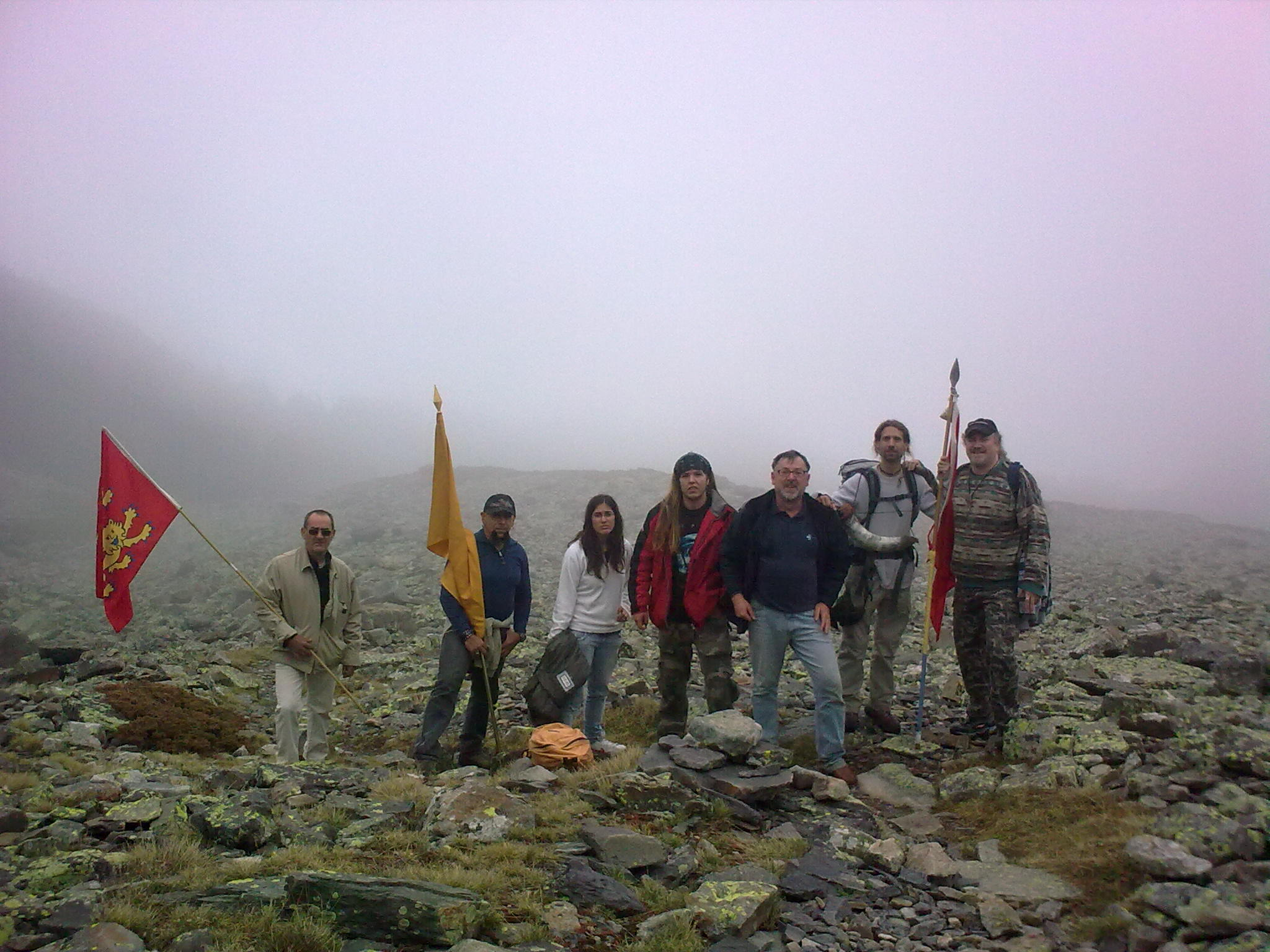 Moncayo, sacred mountain.